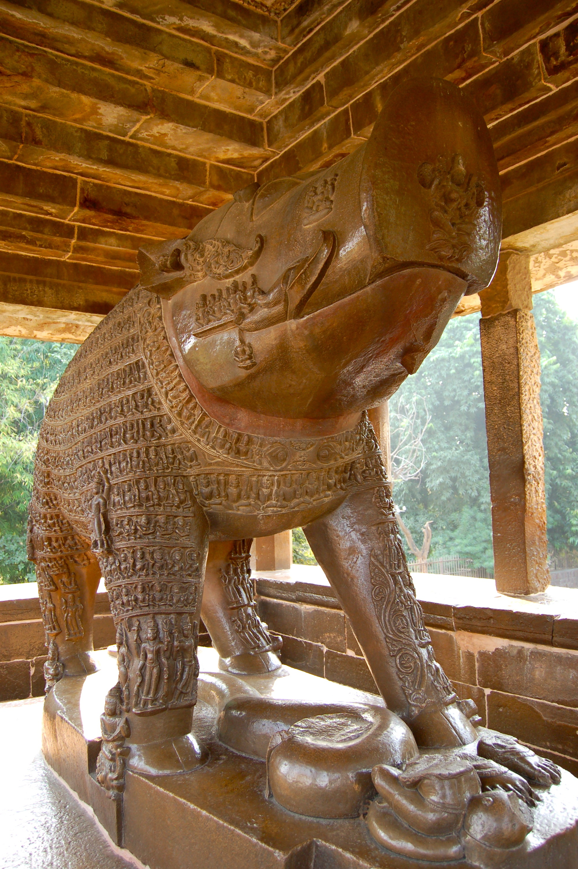 The Varaha Sculpture at Varaha Temple in Khajuraho Group of Monuments, India.